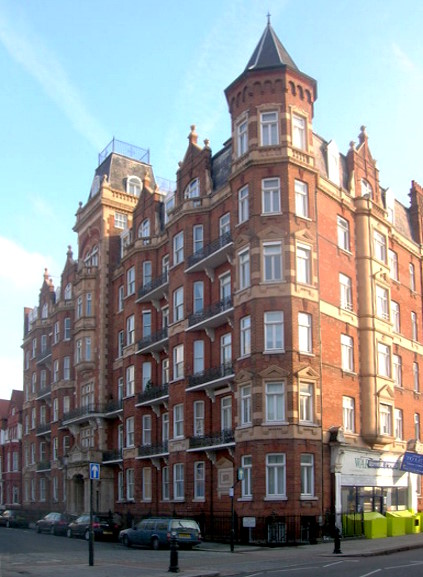 Langham Mansions, Warwick Road, London SW5 At the Junction of Earl's Court Square, London SW5